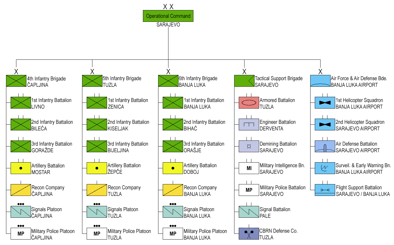 Armed Forces Bosnia Herzegovina - Operational Command Structure